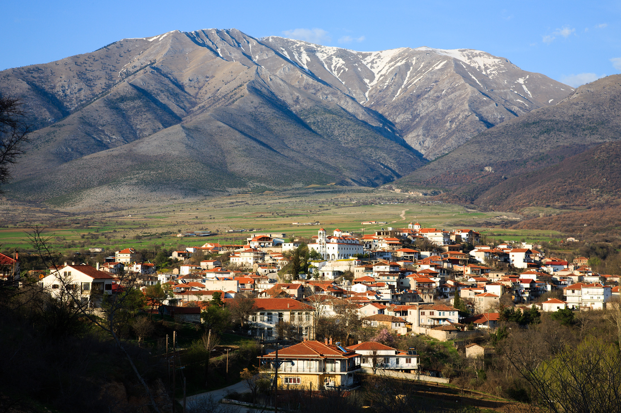 Achladohori (Krushevo) village in Northern Greece